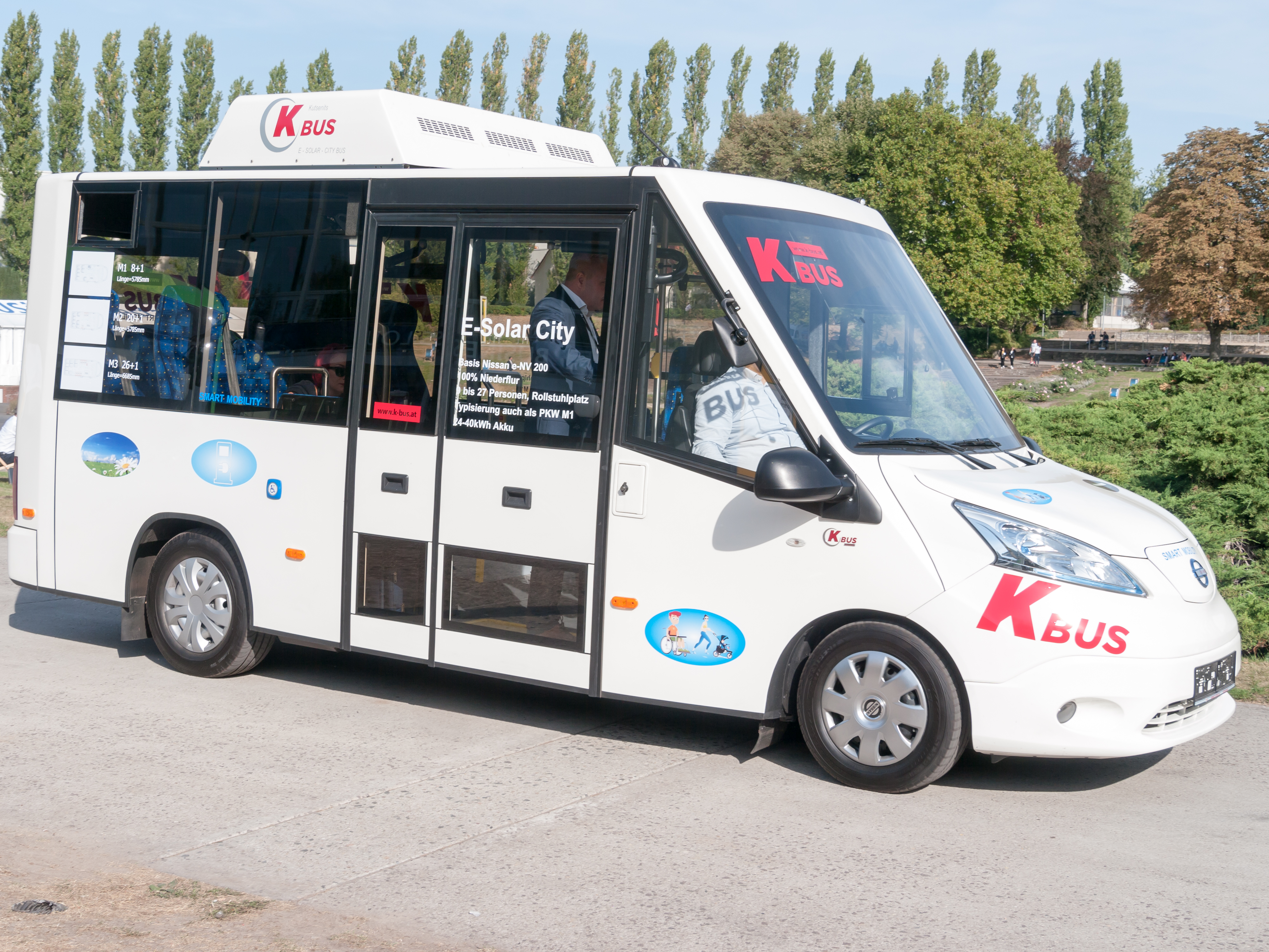 Innotrans 2018